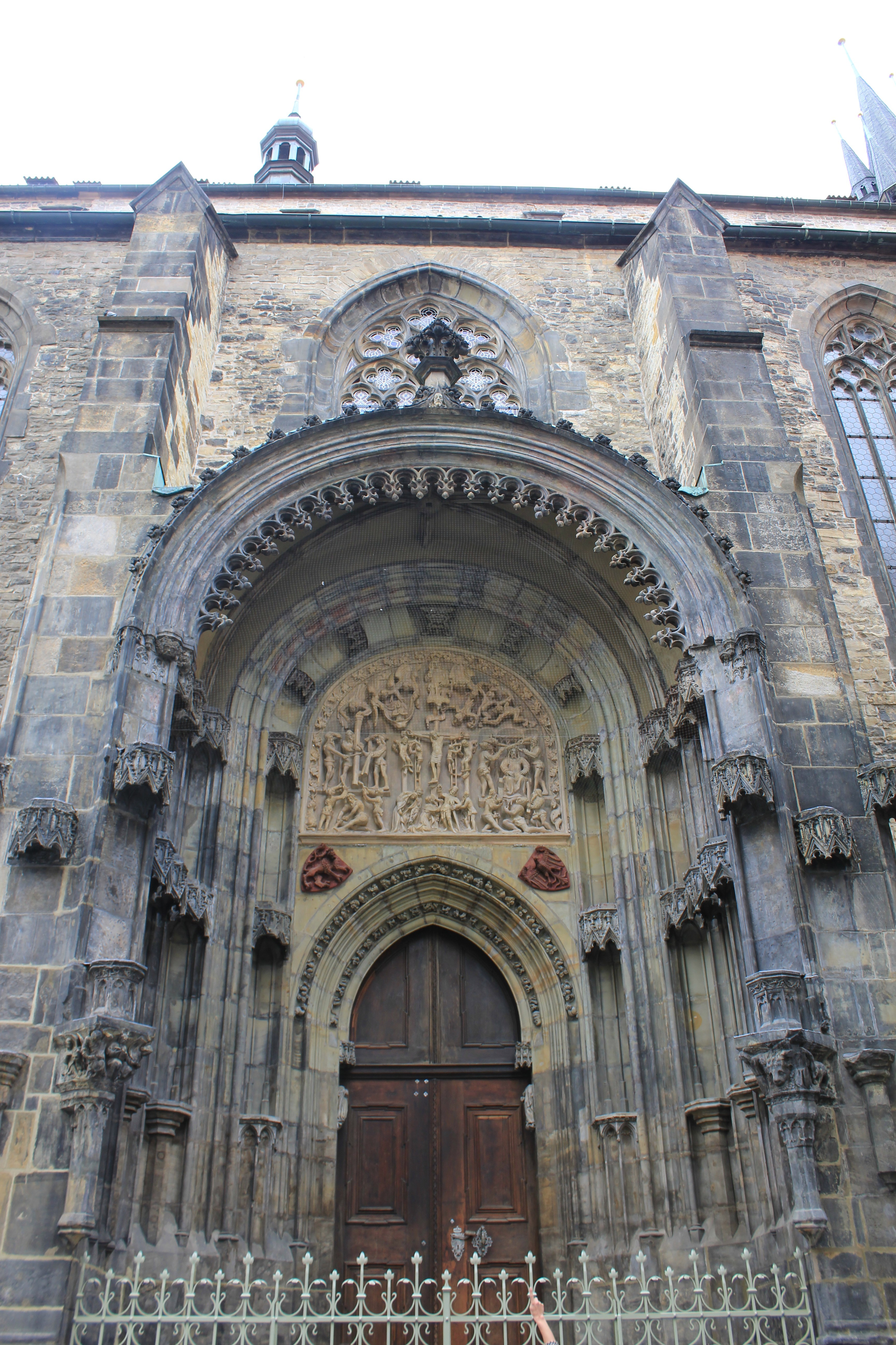 side entrance Tyn Church